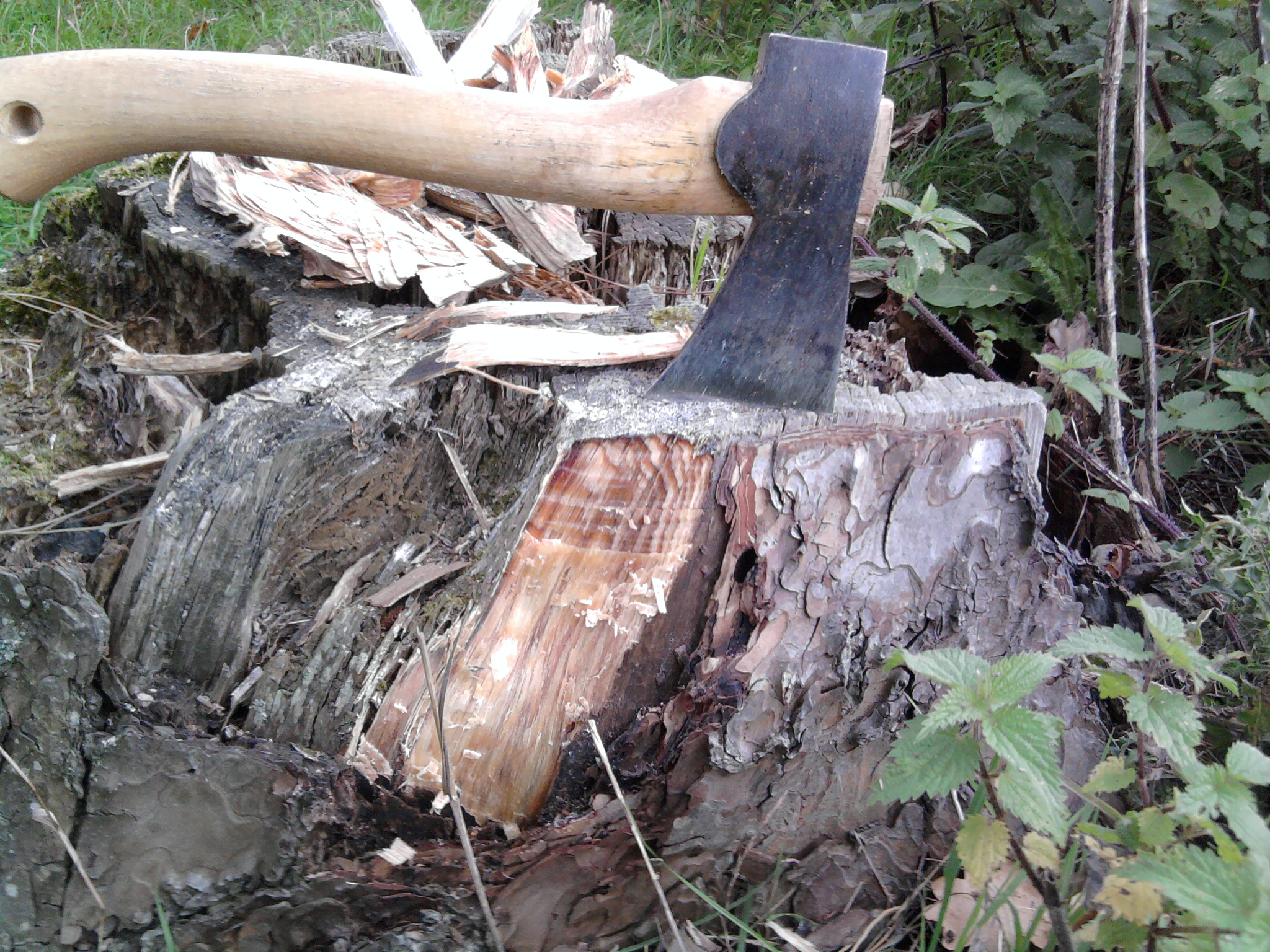 Fatwood Stump